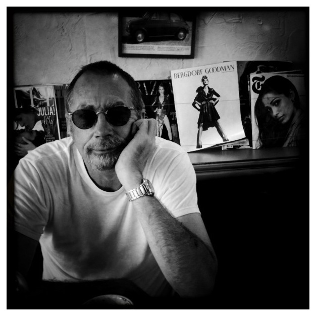 Graham Priest at in New York City in September 2010